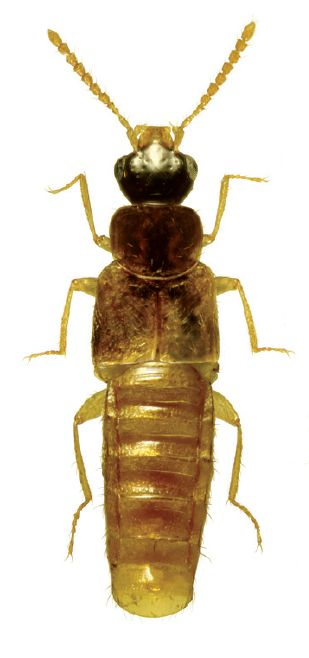 Dorsal view of Gyrophaena (G.) fuscicollis (apical part of abdomen removed).